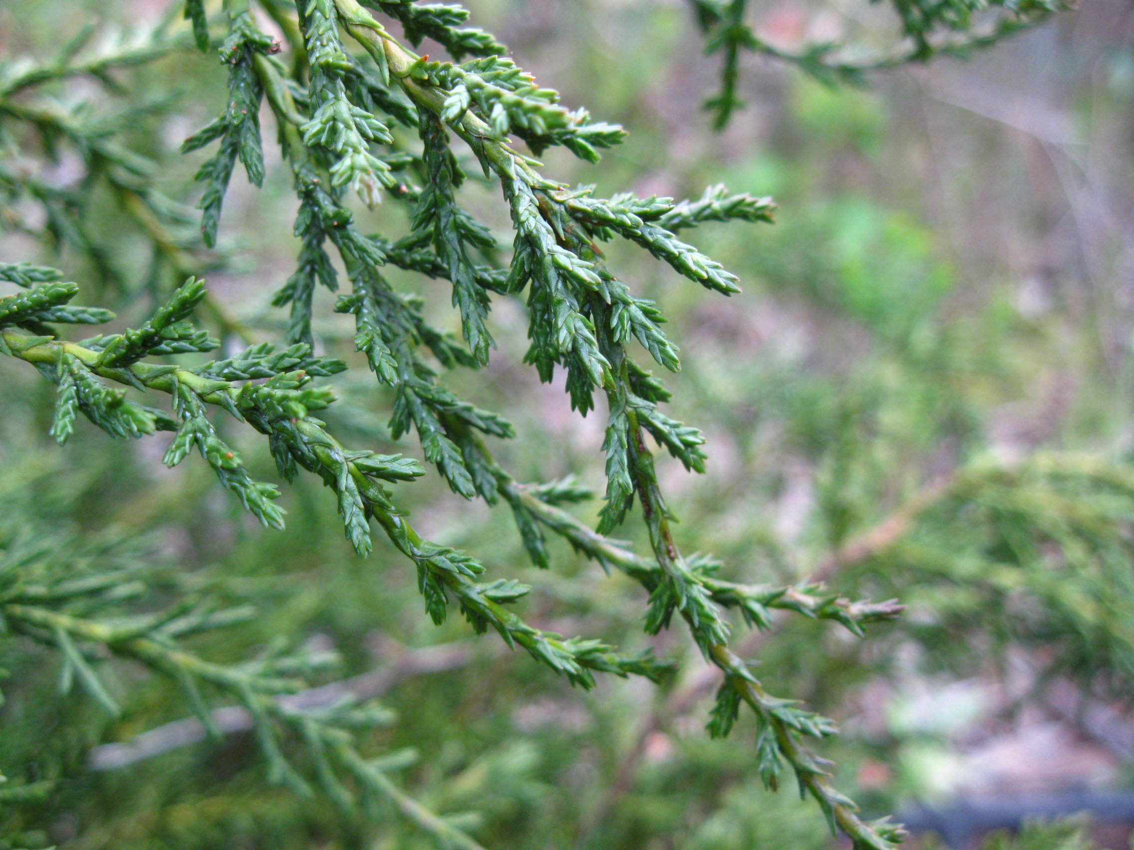 Diselma archeri foliage